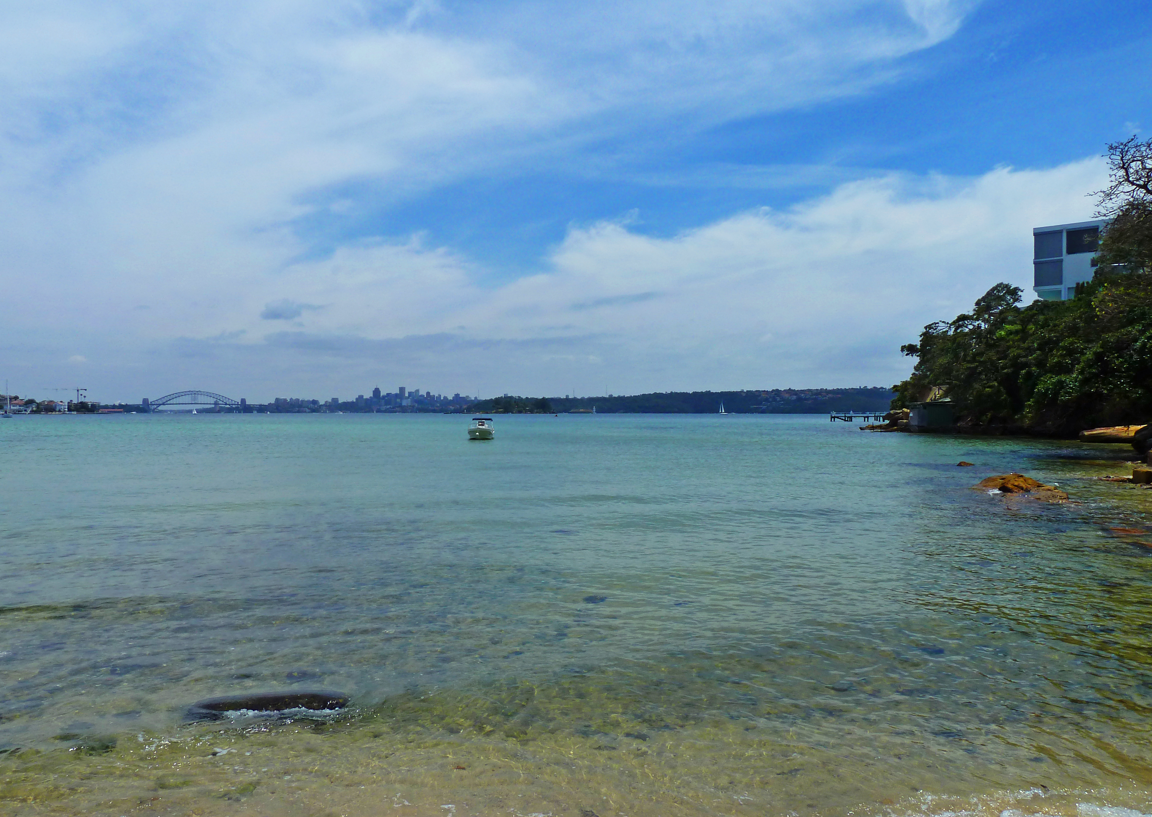 Sydney Harbour, from Dumaresq Road, Rose Bay, New South Wales, Australia.